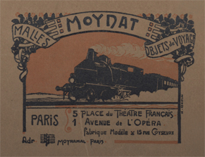 Moynat logotype by Henri Rapin